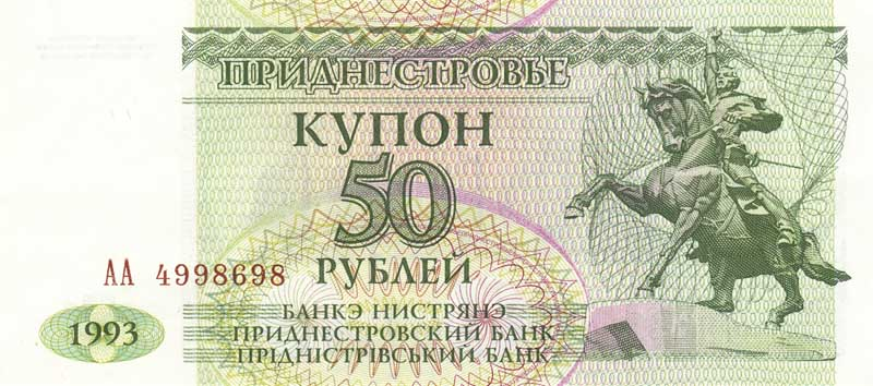 50 Kupon Ruble banknote